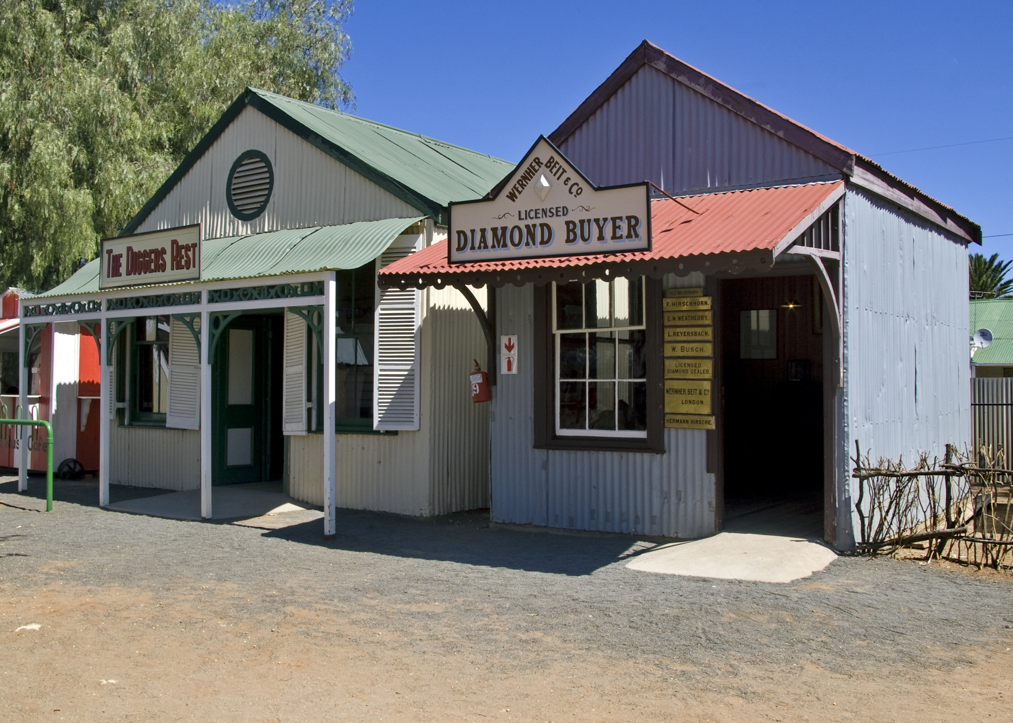 Open-air mining museum, Big Hole, Kimberley, RSA